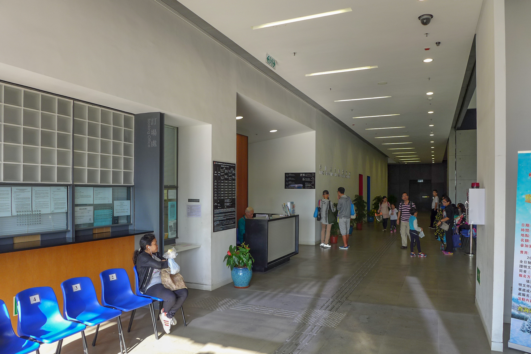 Ping Shan Tin Shui Wai Sports Centre Level1 Ticket office